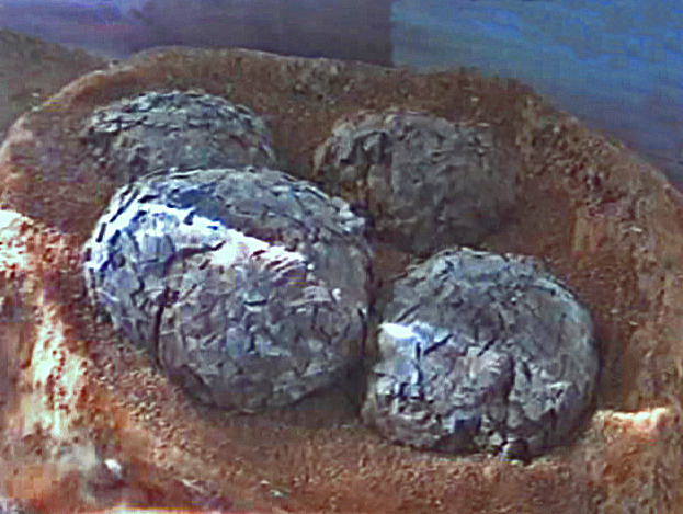 Megaloolithus at the Museum d'Histoire Naturelle Aix-en-Provence. Eggs of titanosaurid, possibly Hypselosaurus priscus.